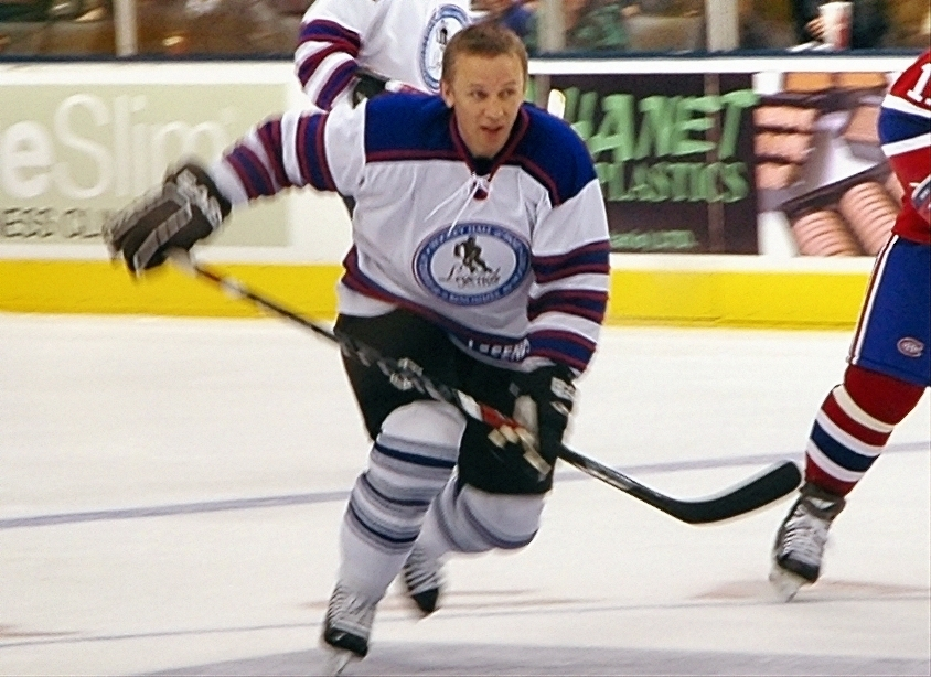 Igor Larionov played with the All-Star Legends 2008 in Toronto